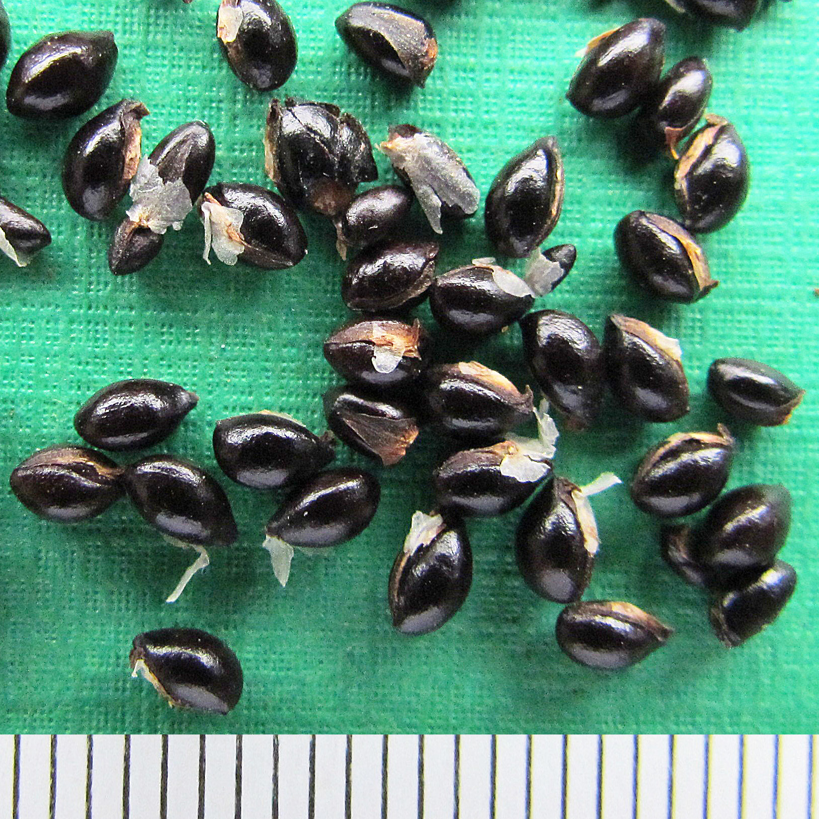 Tetradium daniellii seeds.